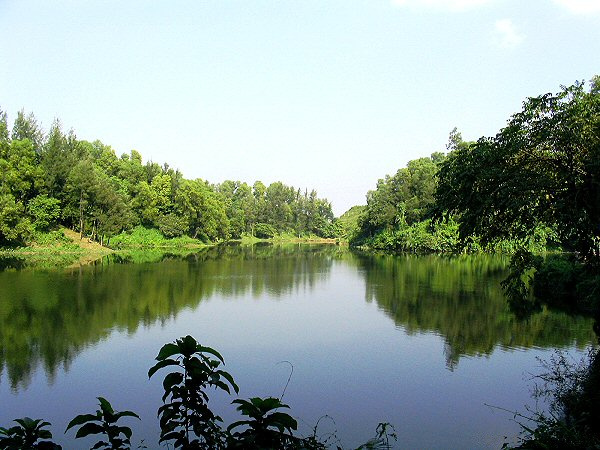 Foy's Lake, Chittagong, Bangladesh. Photo: Faruque Abu Sayeed, 2003.